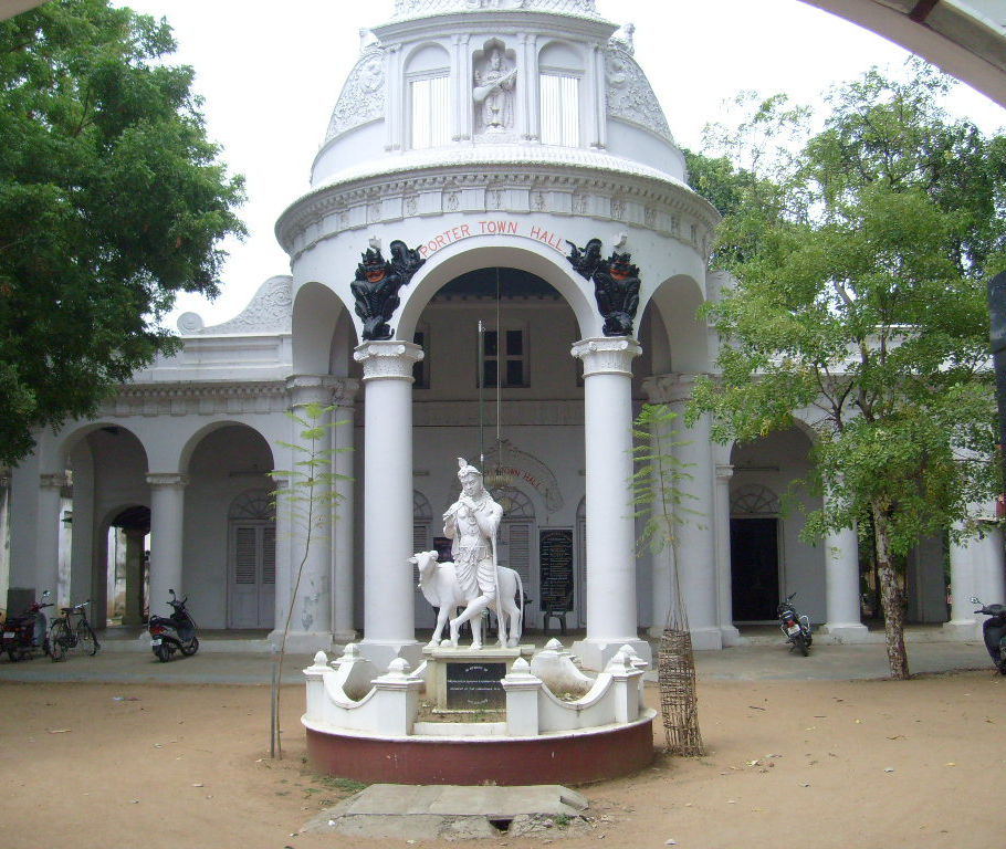 Porter Town Hall, Kumbakonam (estd. 1883) and named after William Archer Porter, first principal of Government Arts College. The statue of the Hindu god Krishna at the entrance was set up in 1913 and is dedicated to the memory of R. Raghunatha Rao